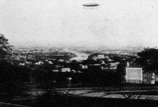 The French officers' Charles Renard and Arthur Krebs LA FRANCE airship made the first fully controllable free-flight the 9 August 1884. It was the first full circle flight with landing on the starting point. The astronomer Jules Janssen took this photo from his Meudon (France) astrophysic observatory in 1885. One said LA FRANCE airship was the mythical Flying Dutchman vessel realized.